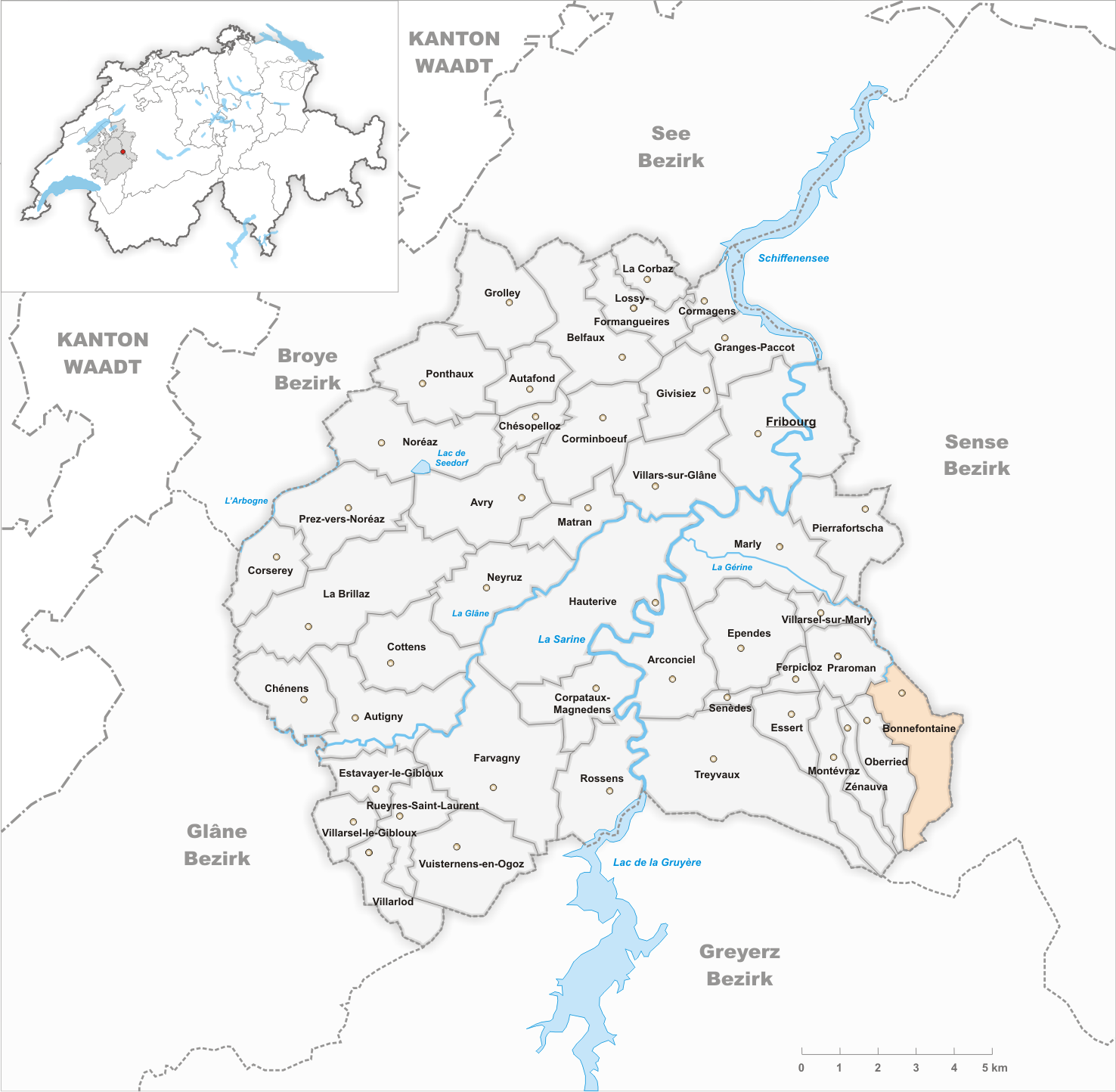 Municipality Bonnefontaine Artist: Tschubby